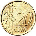 Common (or European) side of a €0.20 coin. It is copyrighted by the European Union.